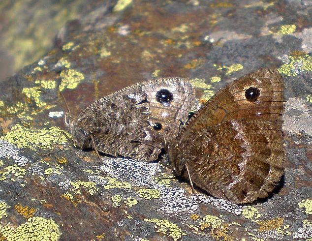 Near Canillo, Andorra. - August 17, 2007